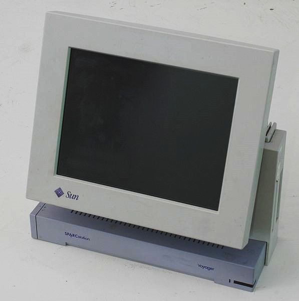 SPARCstation Voyager. From the collection of the RCS/RI.